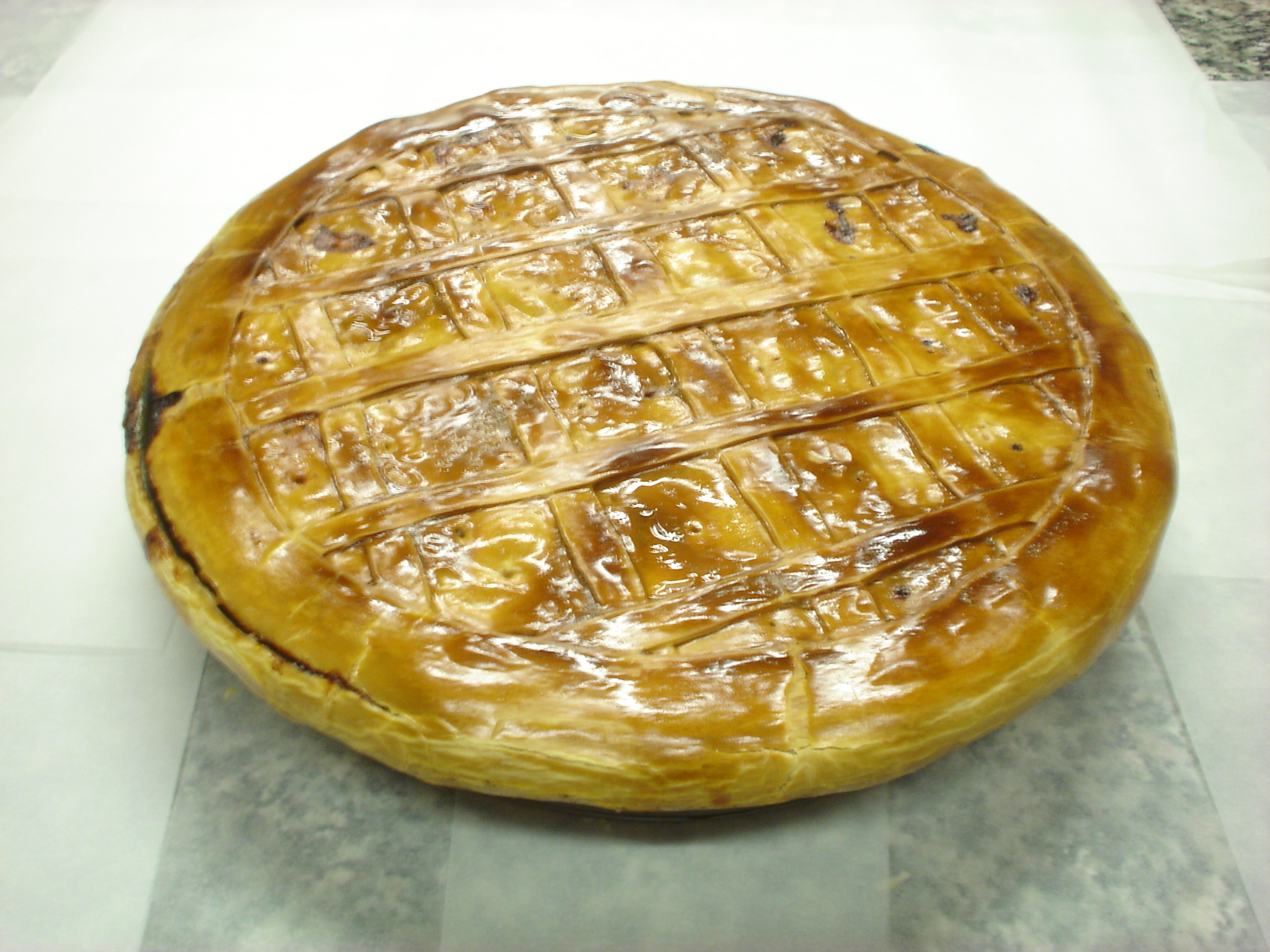 View of a Costrada, a typical dish from Pontedeume, Galicia, Spain